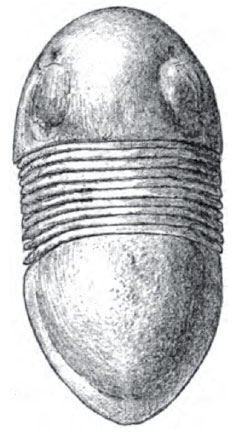 Bumatus niagarensis